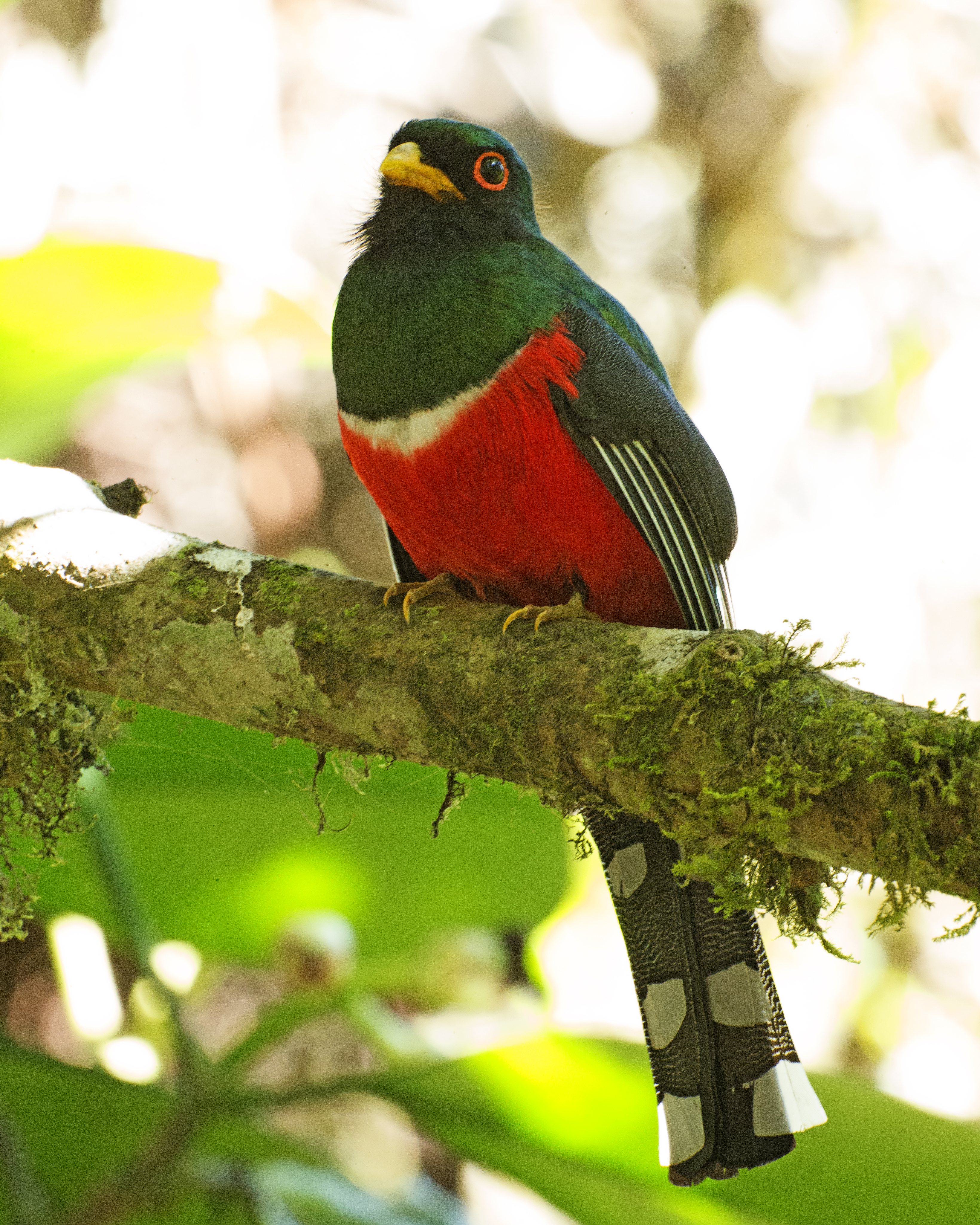 Masked Trogon Trogon personatus Trogon personatus temperatus Race temperatus with smaller bill and bluer crown 30th. July 2014 Tandayapa, Ecuador CF2P0186